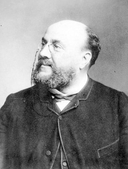 French violinist and conductor Charles Lamoureux (1834-1899) photographed by Pierre Petit (1832-1909).